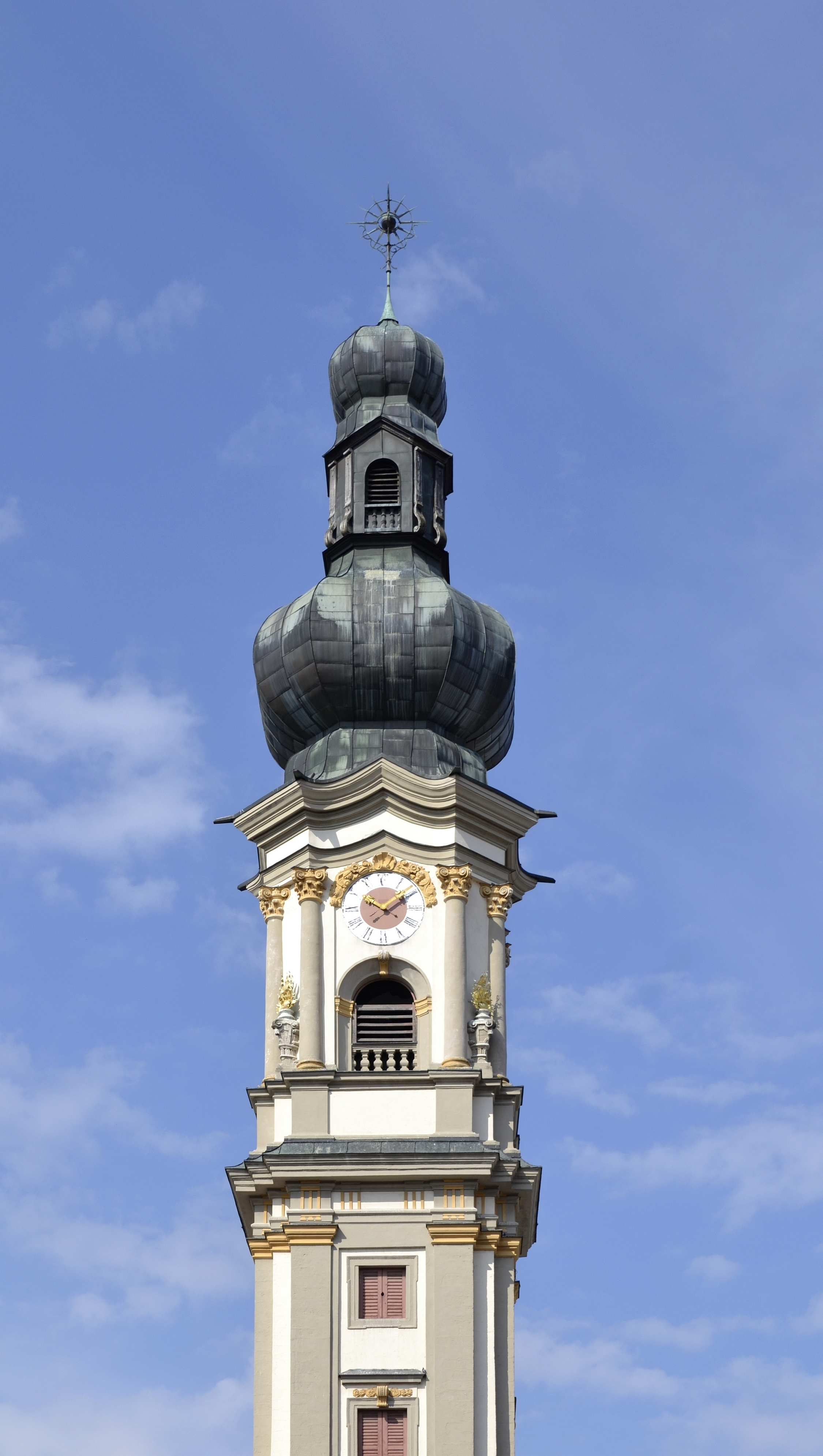 A detailed view of the tower of the Church Heilig-Grabkirche St. Peter und St. Paul in Deggendorf.